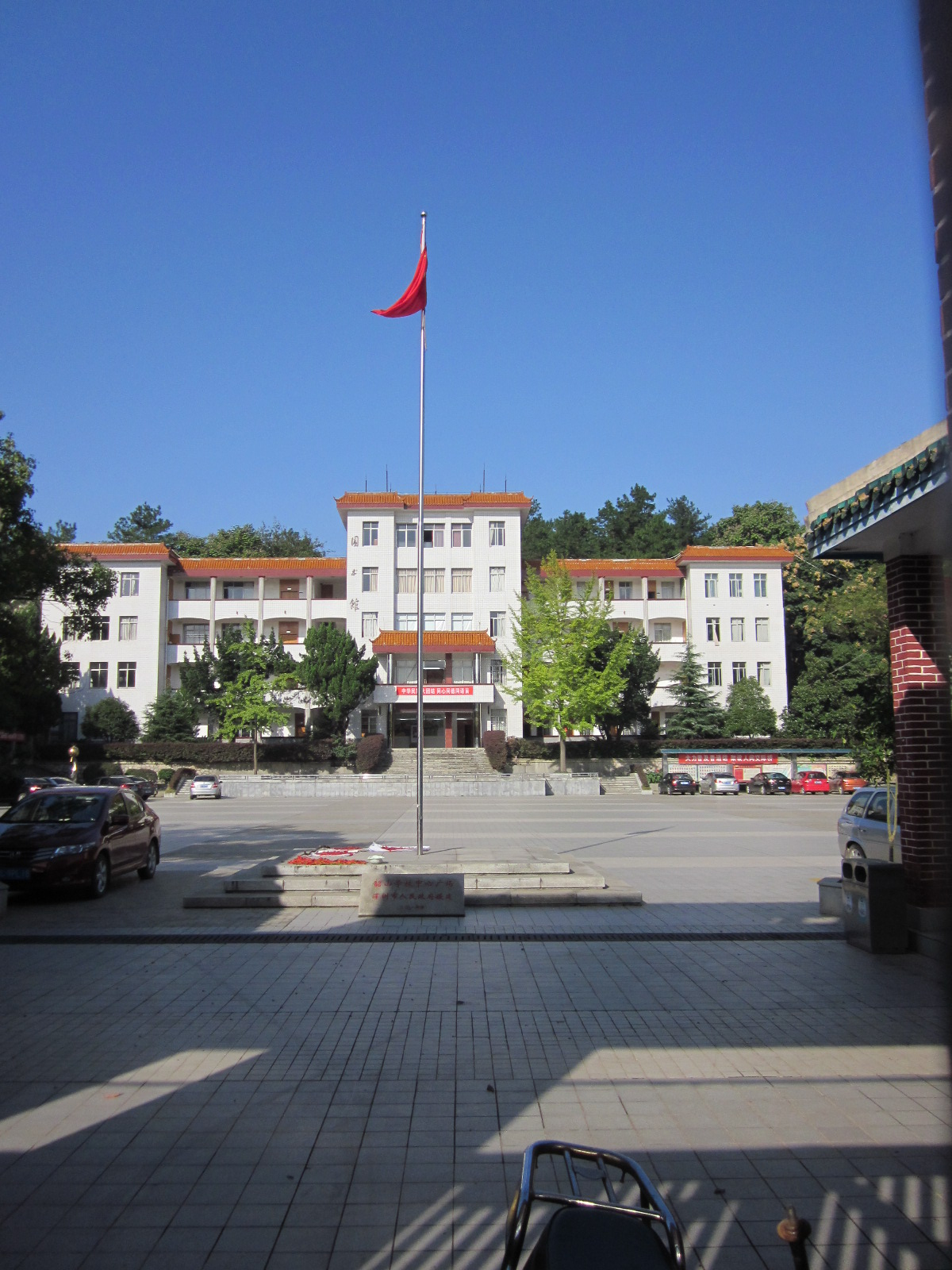 ShaoShan High School